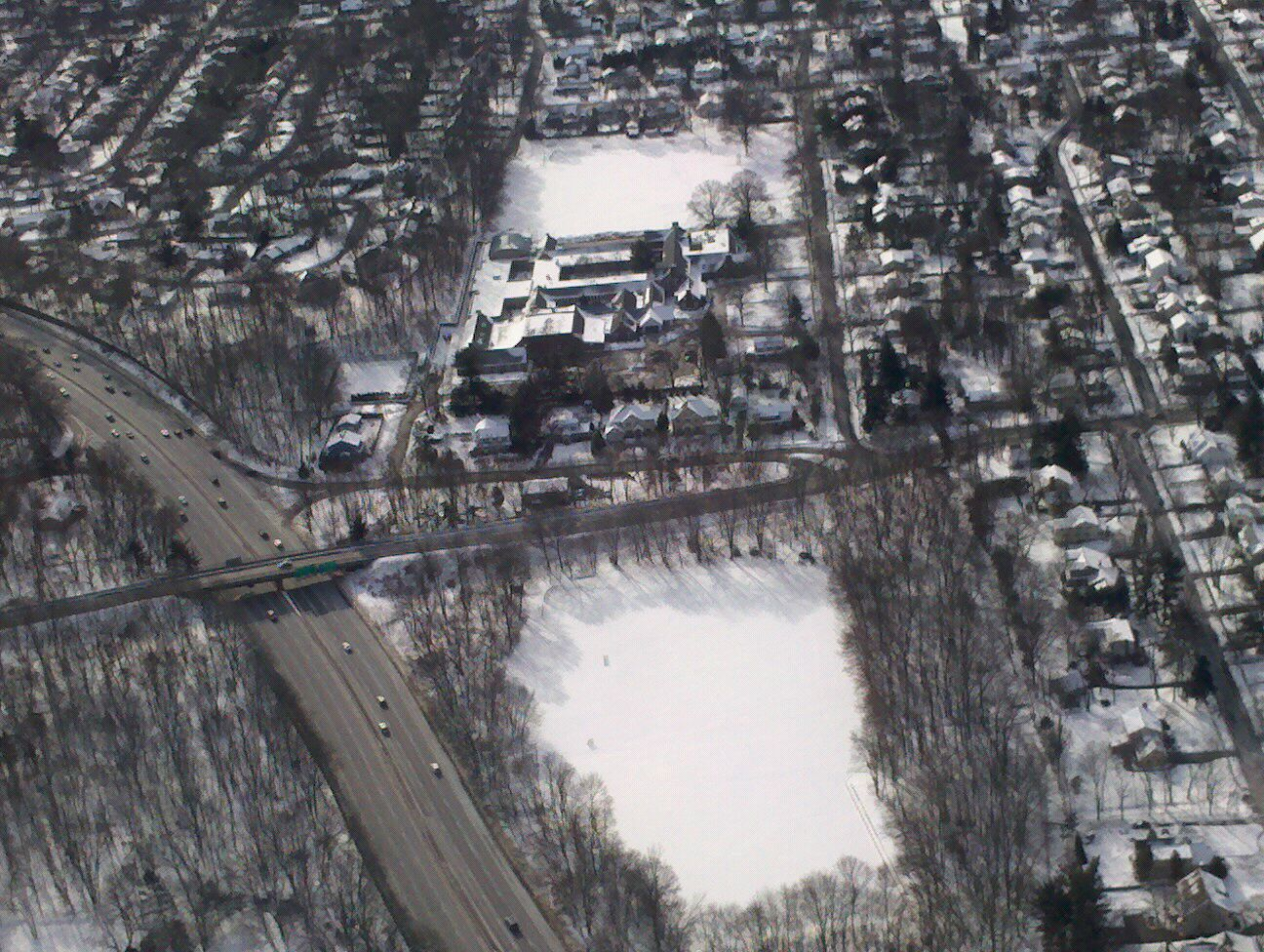 Aerial view of Ho-Ho-Kus Public School in Ho-Ho-Kus, New Jersey. Taken from a Cessna airplane during my flight training.